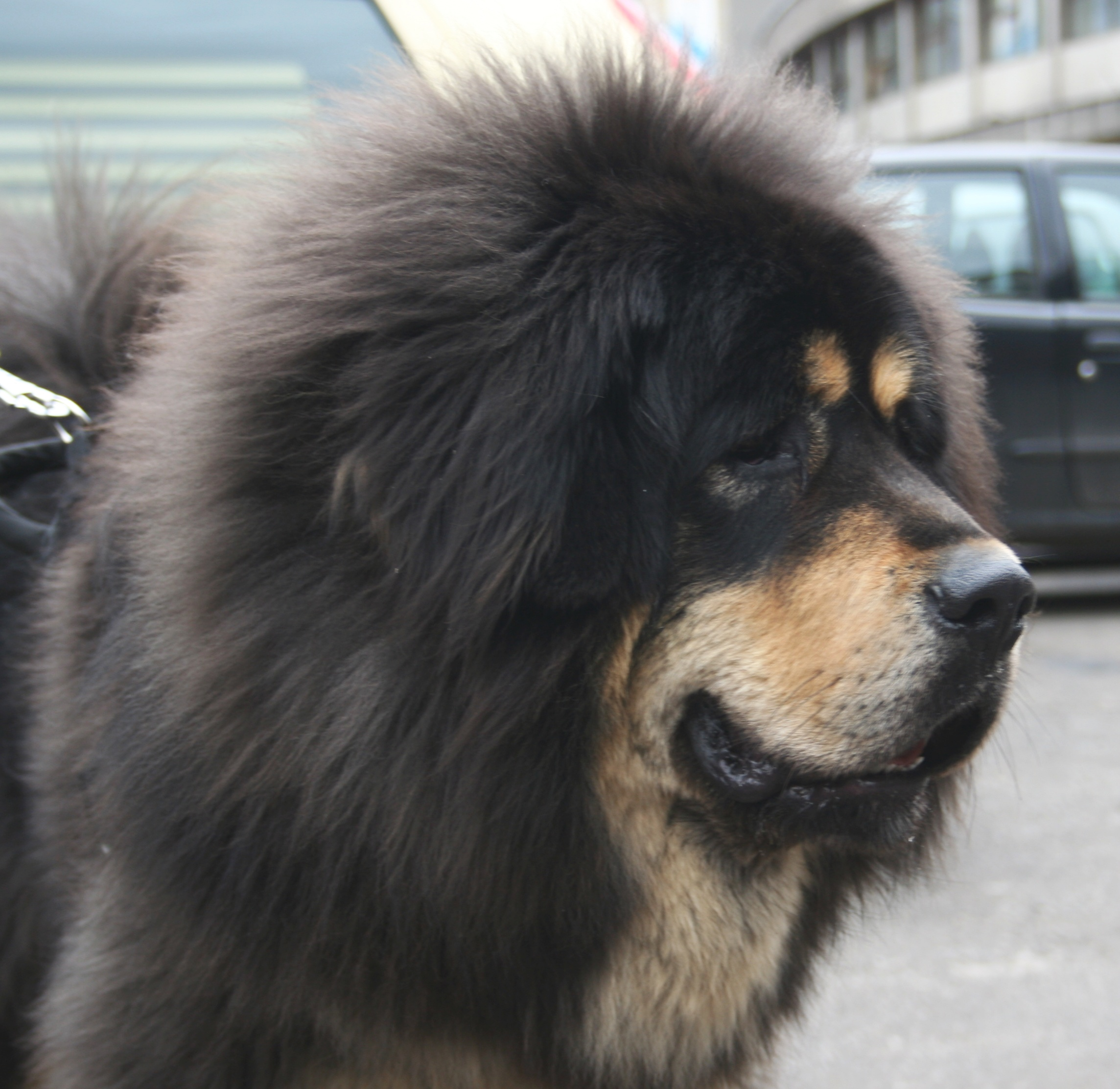 Tibetan Mastiff - dog during the international dogs show in Katowice, Poland. His name is Bagmati KHYI FADO which is called Hando. The owner is Marcin Krasoń from Poland.